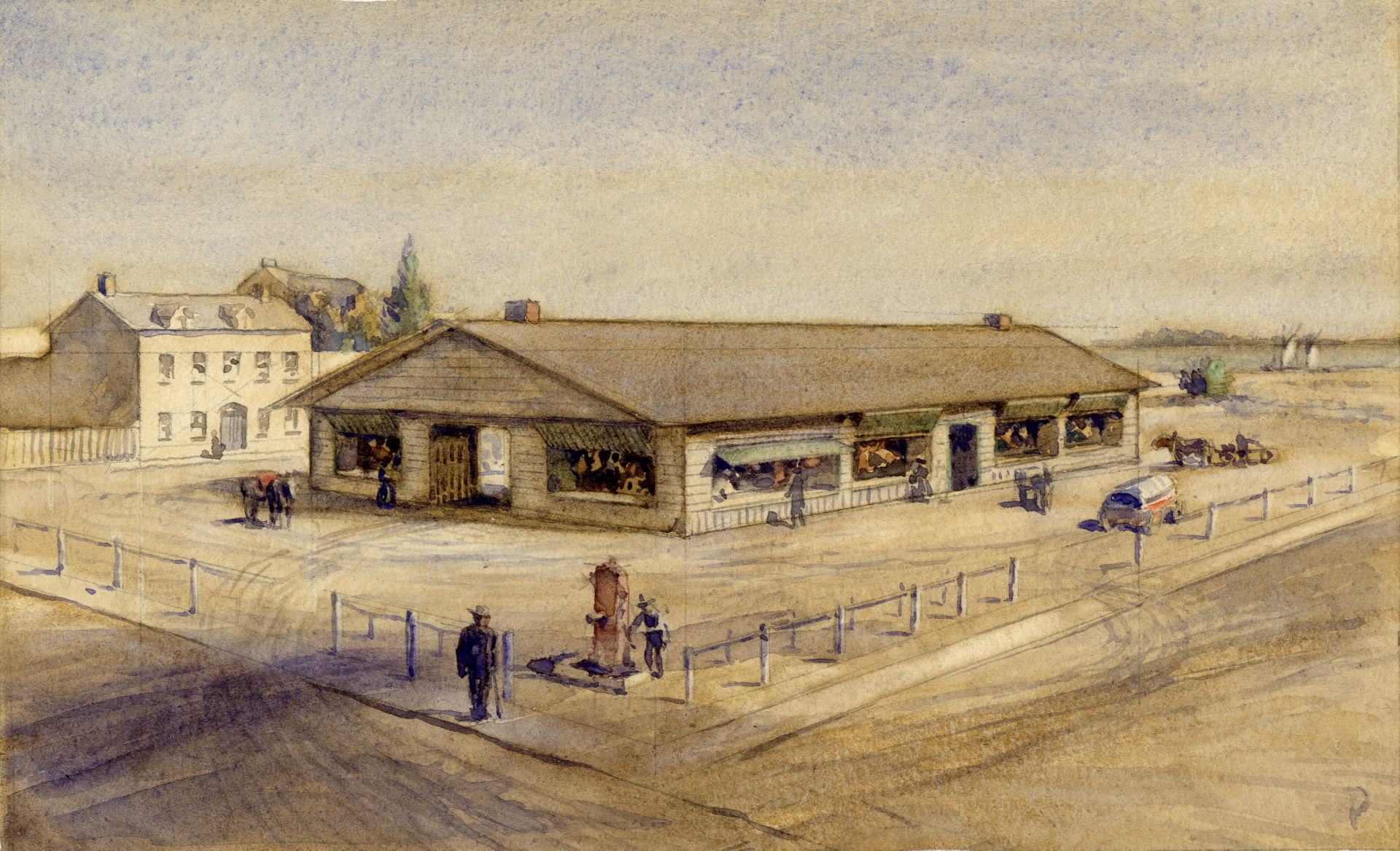 View of first building (1820–1831) to enclose farmer's market at King and Jarvis